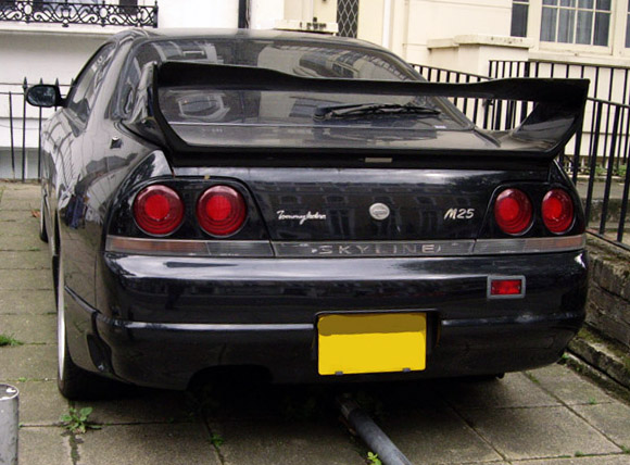 A Tommy Kaira M25 (a heavily modified R33 Skyline)